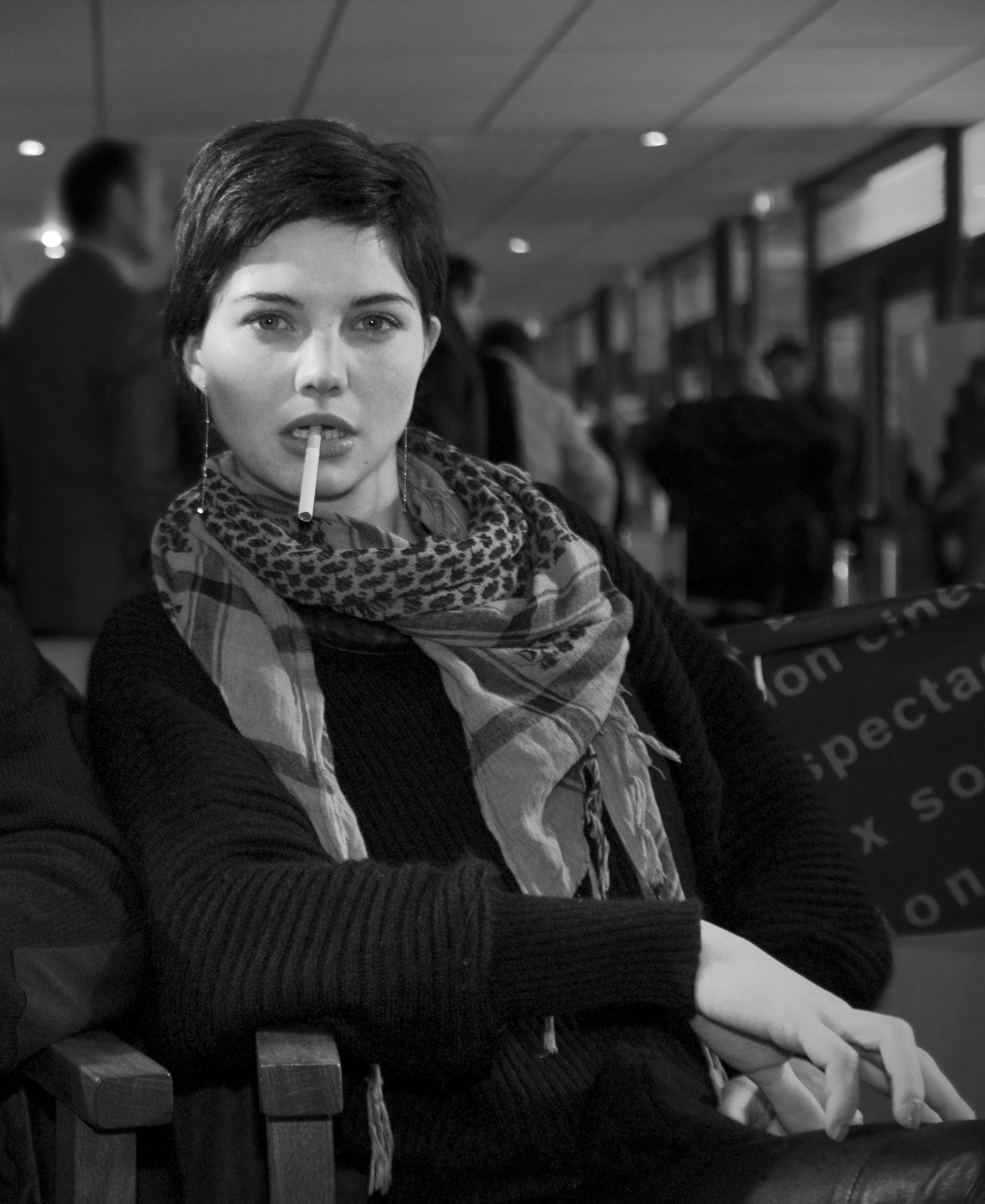 French model and actress Delphine Chanéac at Festival International Musique & Cinéma 2008, in Auxerre, France.